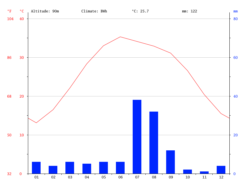 Climate of Feroza